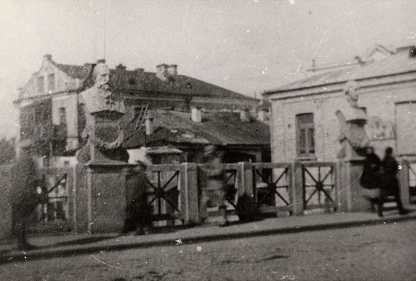 Bratskiy bridge in Lutsk.